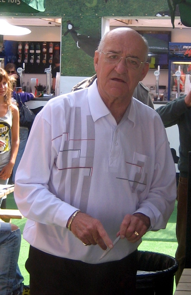 crop of Jim Bowen from photo at Edinburgh Fringe Festival 2008